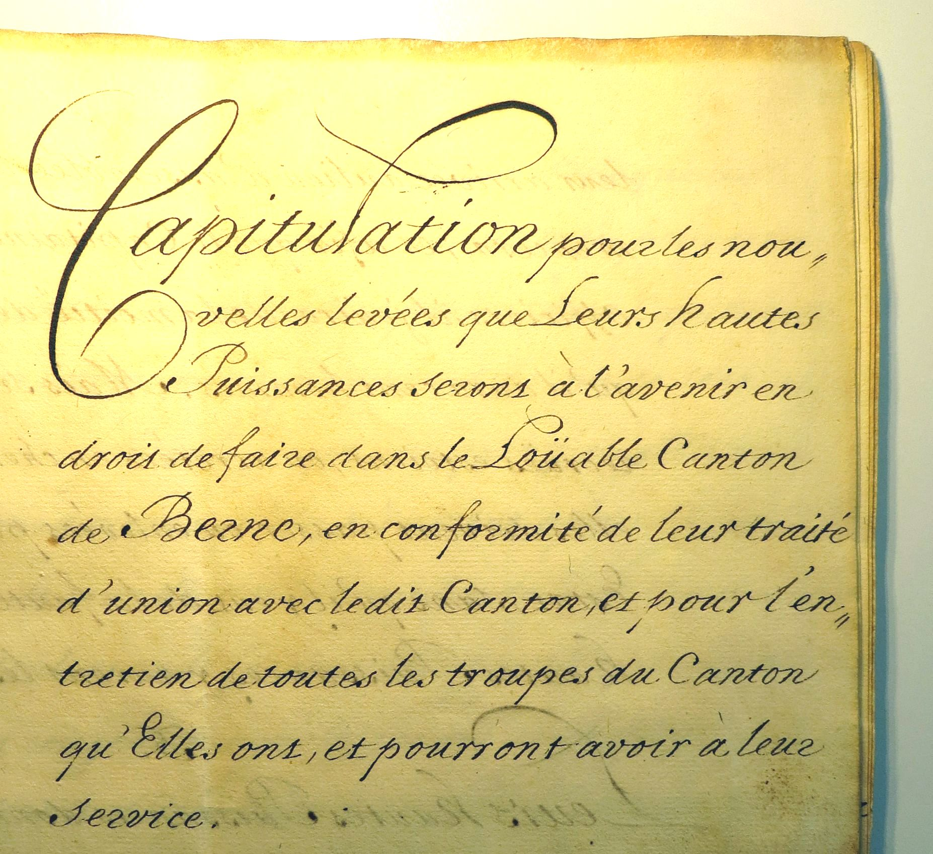 Preambel of the military Capitulation between the dutch United Provinces and the Republic of Berne, January 8, 1714